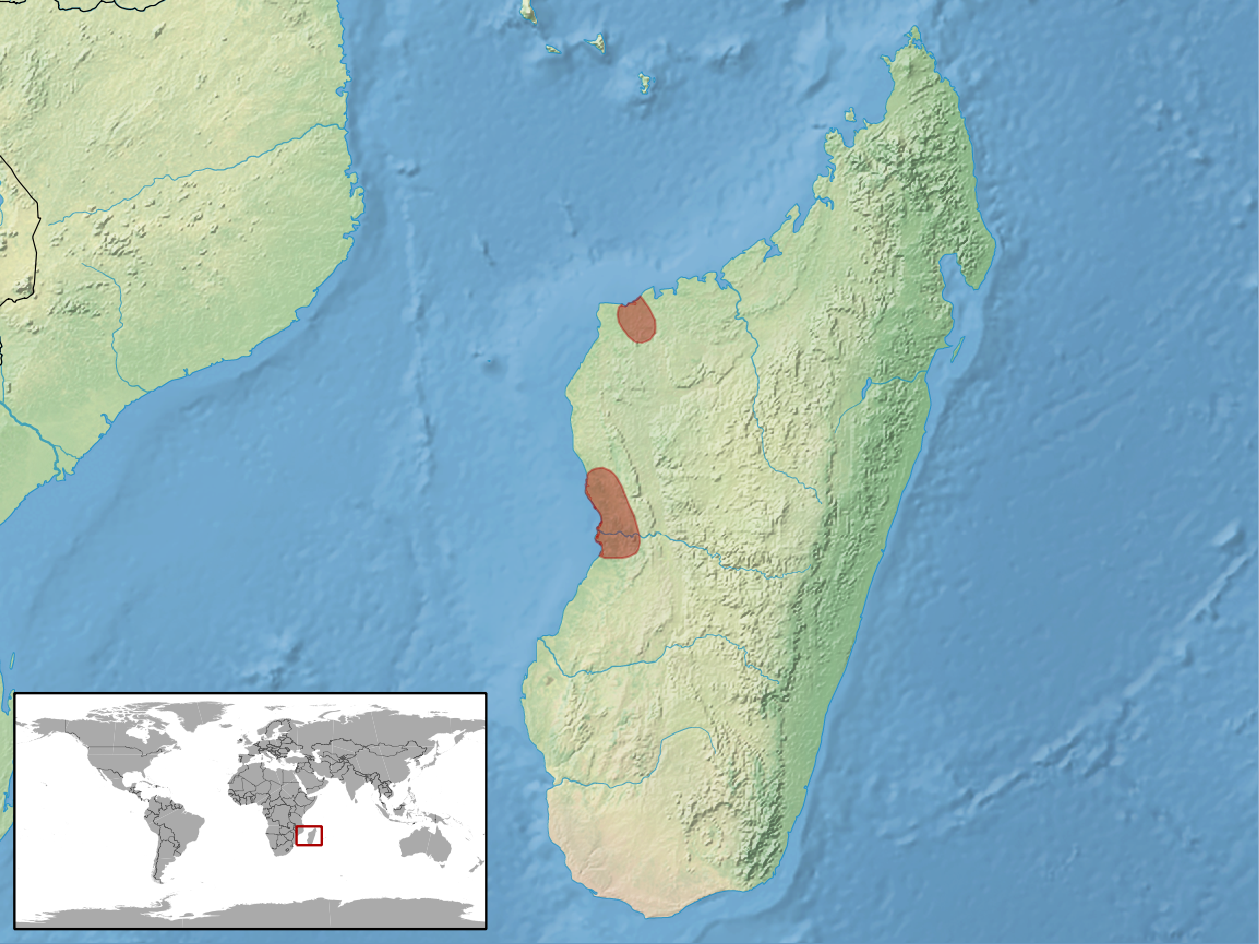 geographic distribution of Trachylepis tandrefana